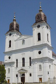 Cathedral of Blaj, Romania